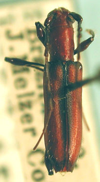 Photograph of Elaphopsis rubidus